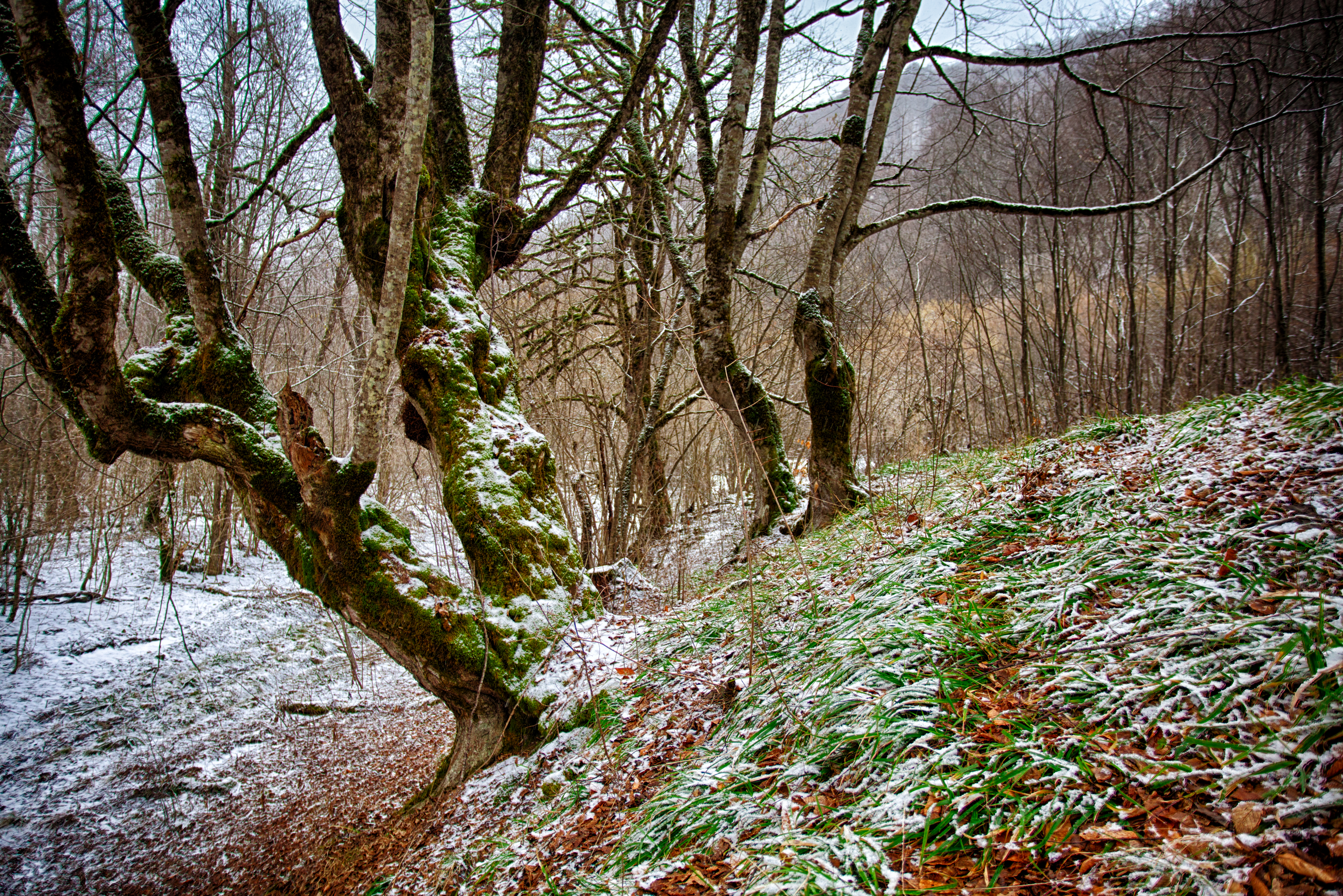 Ilto Managed Reserve includes the parts of the head of Ilto valley, which extends up to 900-2000 meters. It borders Batsara Nature Reserve to the east. The purpose of establishment is to protect and restore precious wood species and characteristic fauna. Such birds as buzzard, hawk, sparrow-hawk, eagle and even bearded vulture rarely occur in the managed reserve; and the mammal species like hedgehogs, martens, rabbits, badgers, jackals, foxes, wolves, wild boar, bear, deer, lynx and chamois. The otter is rather rare.